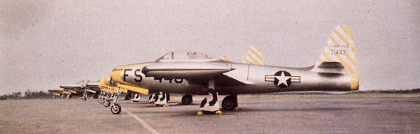 F-84C Thunderjets of the 33d Fighter Group (ADC)